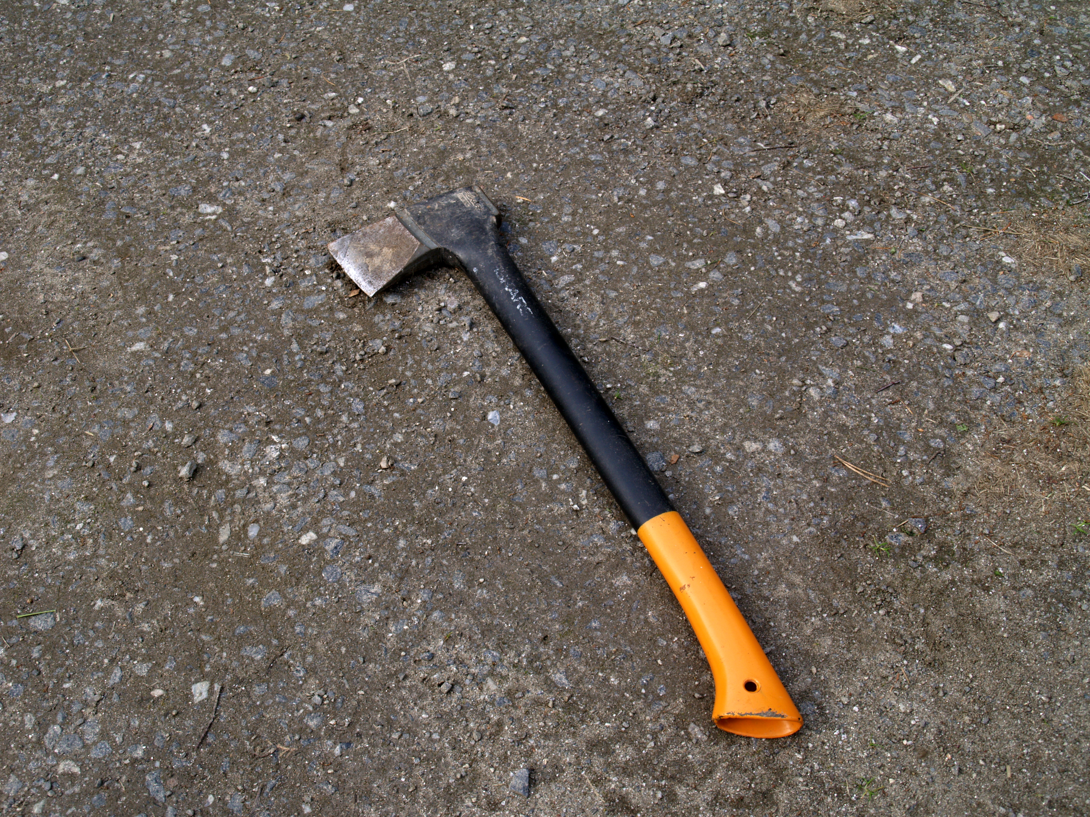 Fiskars Axe.